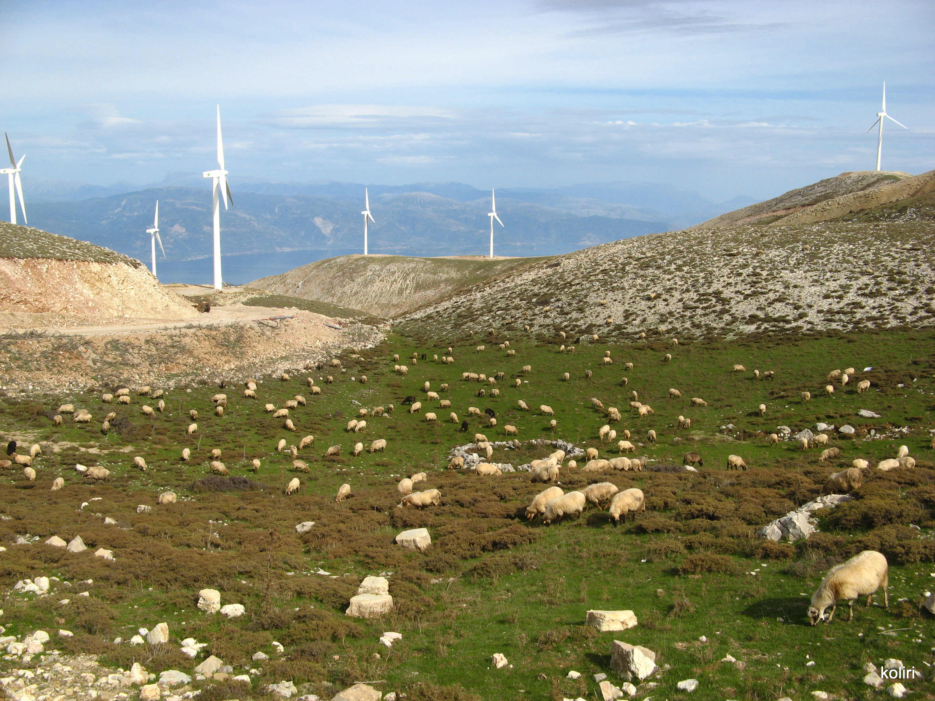 Windfarm & sheep grazing in Panachaiko Mountains, Greece